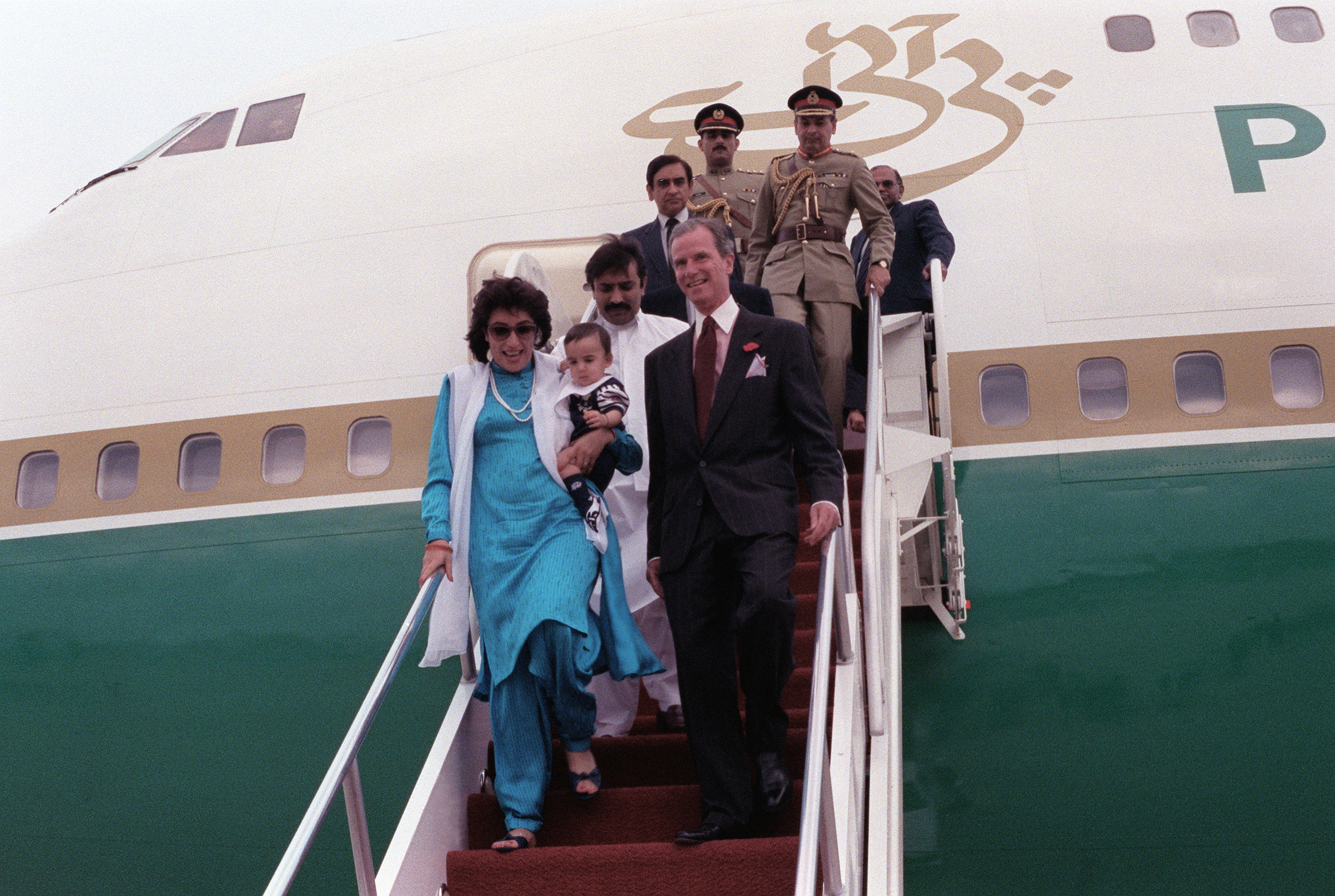 Benazir Bhutto, the Prime Minister of Pakistan, carrying her son Bilawal Bhutto Zardari, leaving an airliner upon her arrival for a state visit (at Andrews Air Force Base).